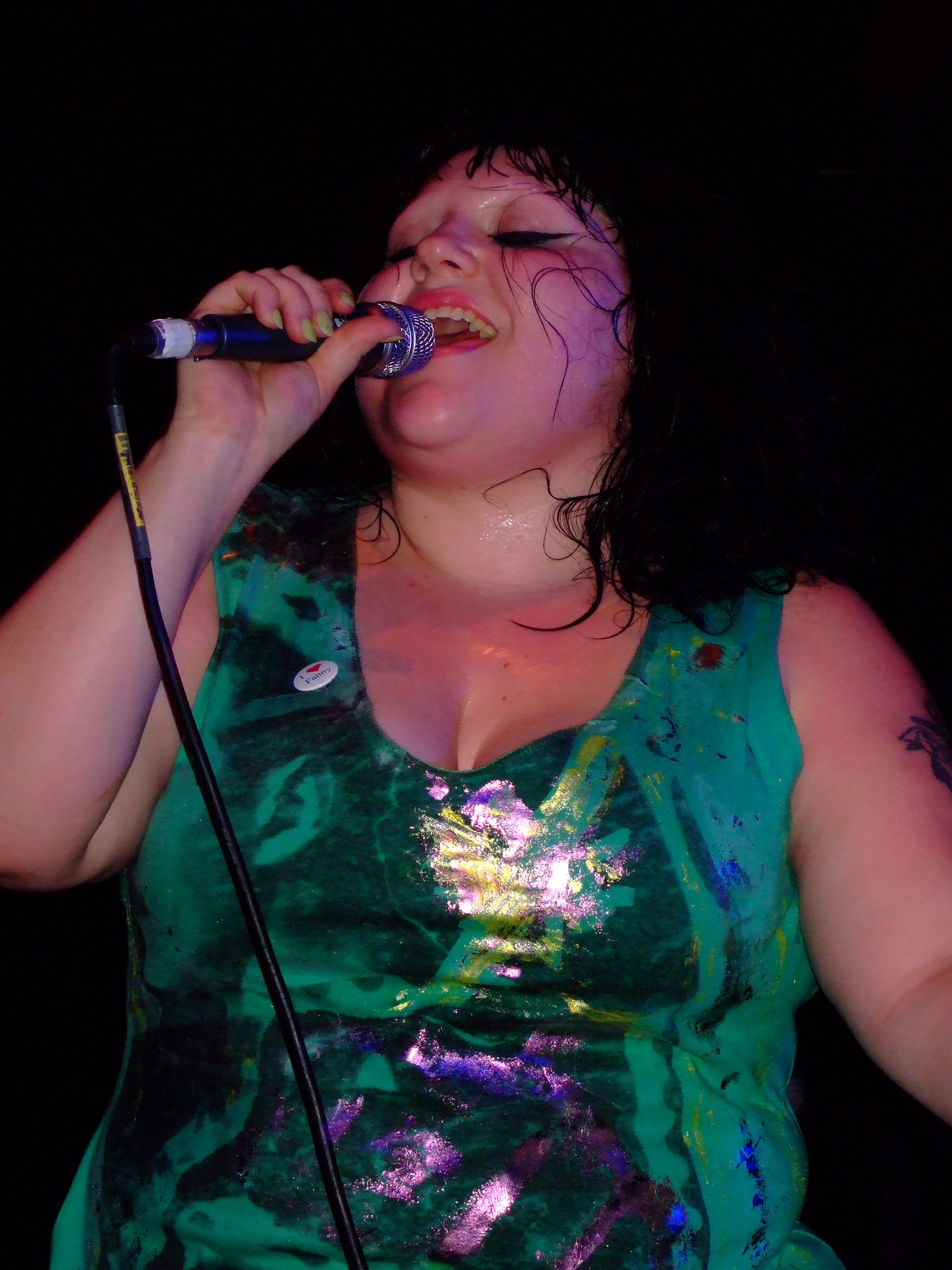 Beth Ditto performing at the Shepherds Bush Empire, London, 21 March 2008